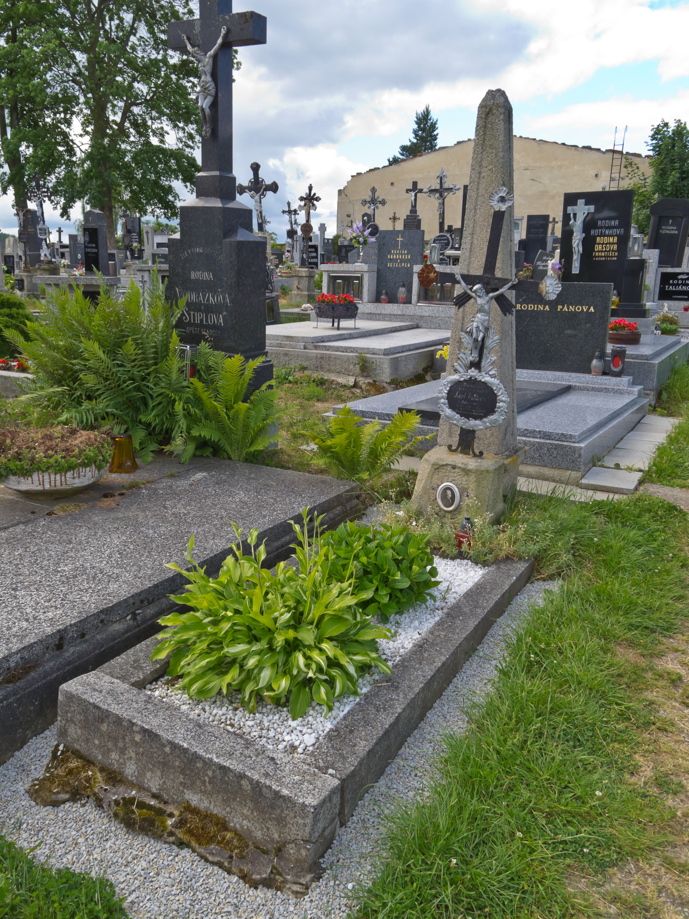 Ditters von Dittersdorf - tomb in Destna